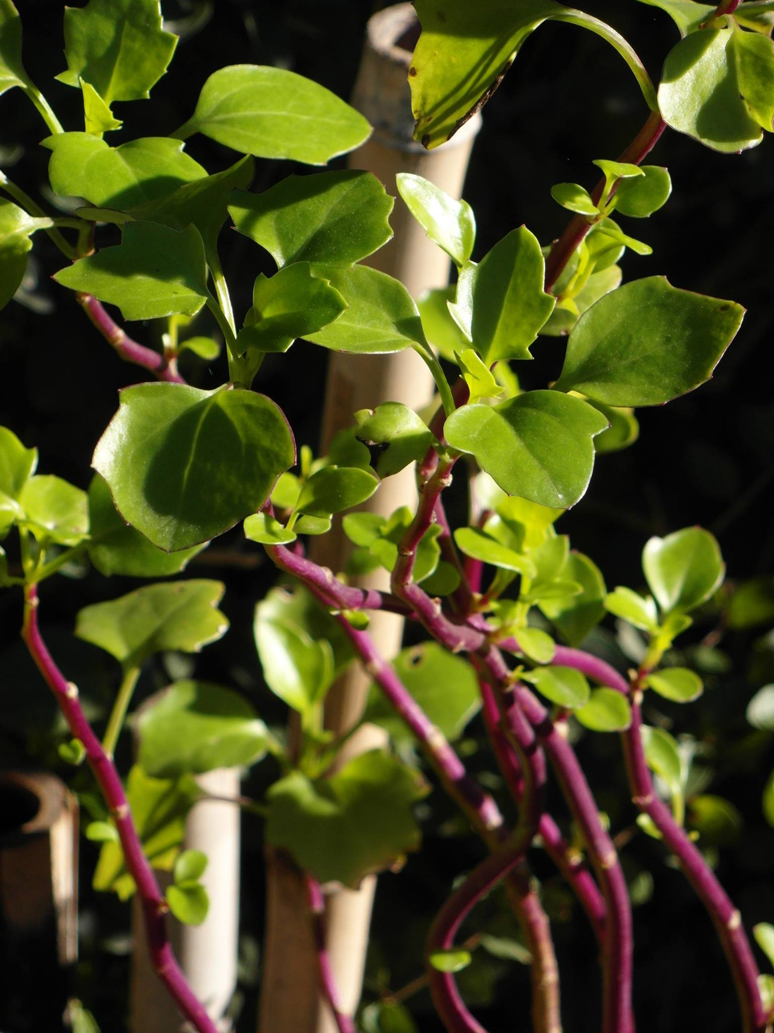 The herbaceous, succulent, purple stems of Creeping Groundsel